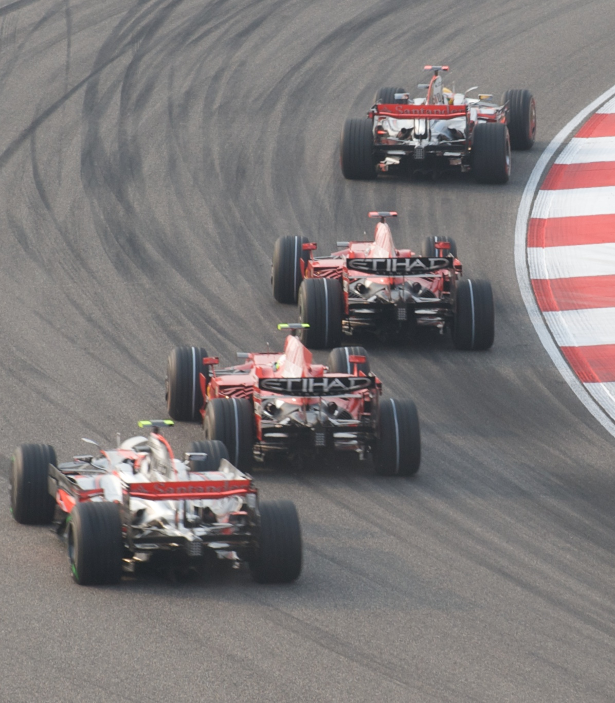 Race, Lap 1 - Shanghai F1 GP 2008.